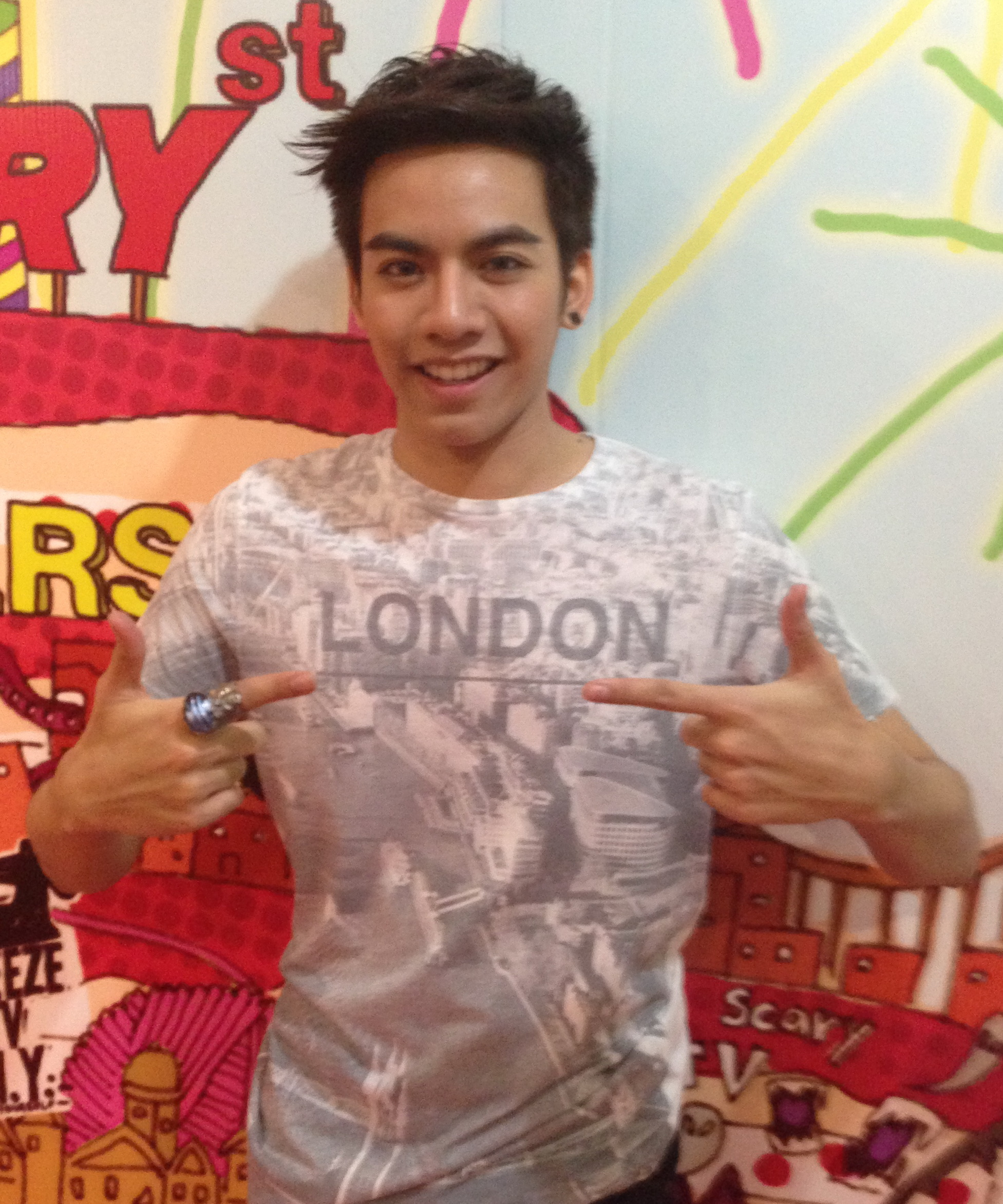 Thanasit Chaturapush at VERY TV.